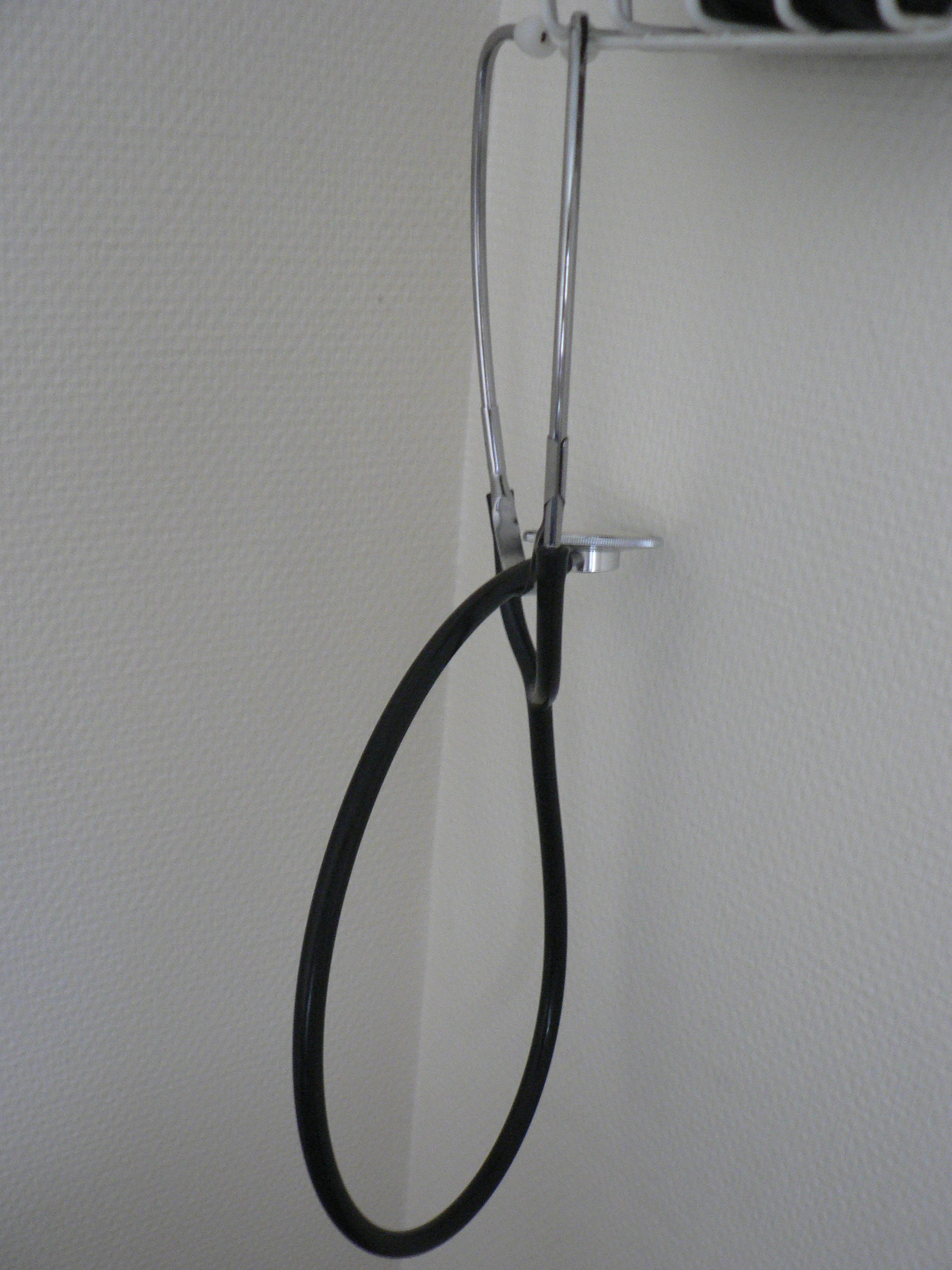 stethoscope